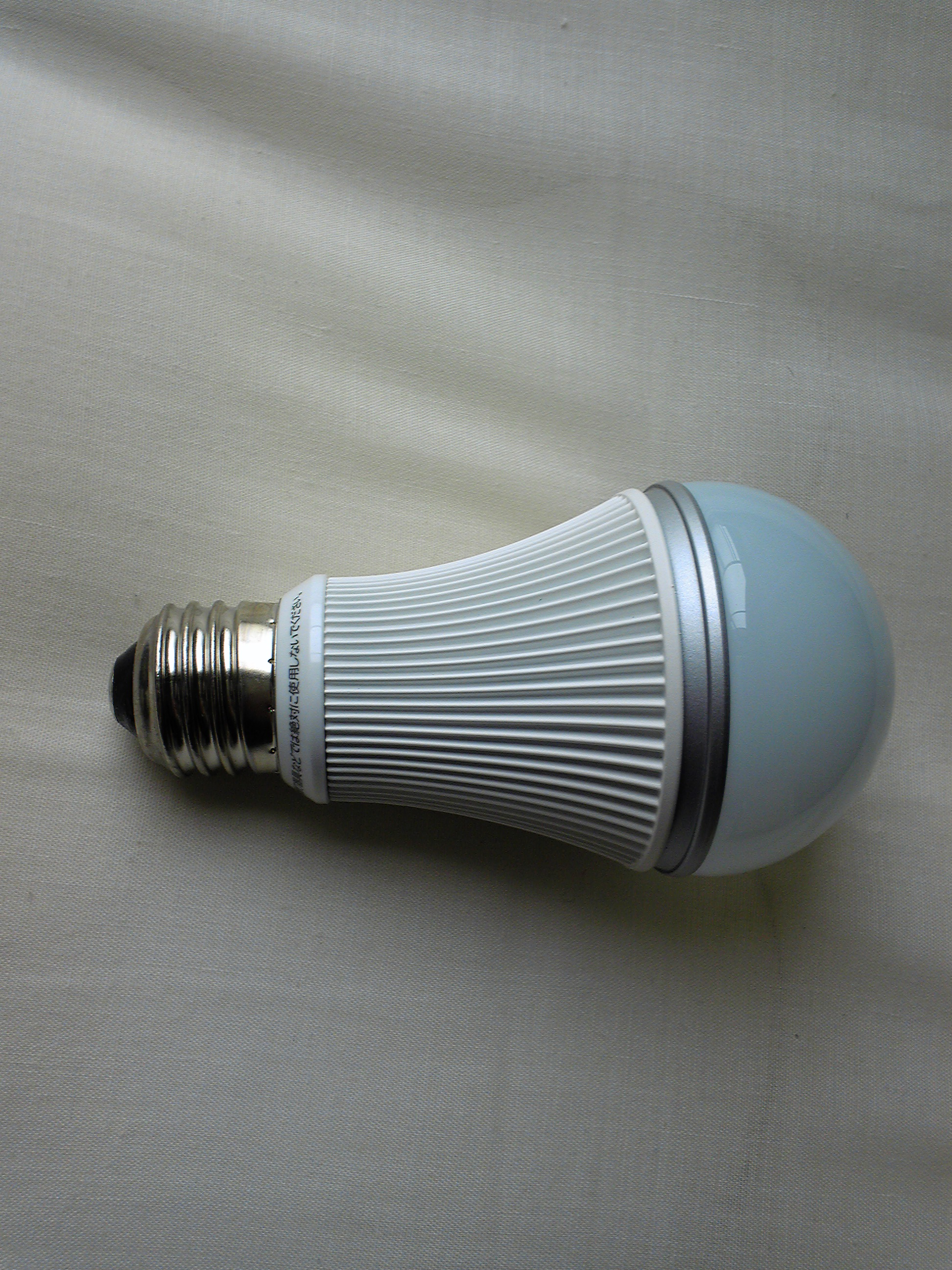 The LED Bulb made by Sharp Corporation. DL-L601N. daytime white, looks like 60W brightness, power consumption is 7.5 W, E26. Released on August 1st 2009.